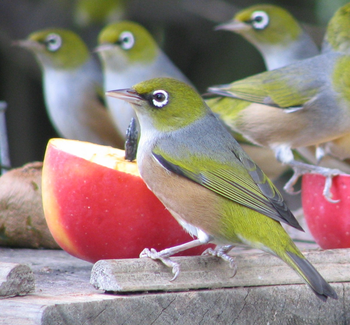 Silvereyes in Dunedin, Aug 2007, own photo